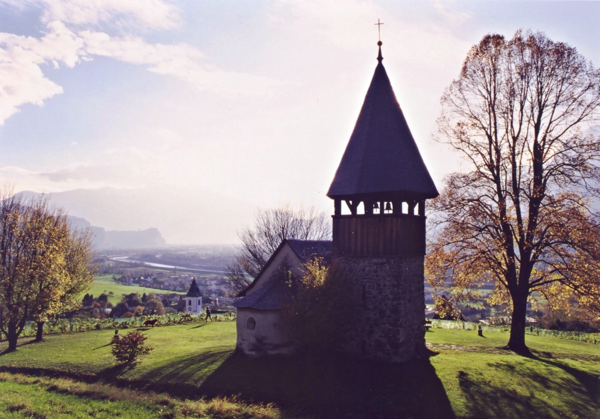 Chapel Saint Mamerten in Triesen, principality of Liechtenstein